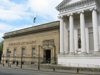 Museum and Art Gallery, Perth, Scotland. Photograph taken by Dudesleeper on June 7 2003.